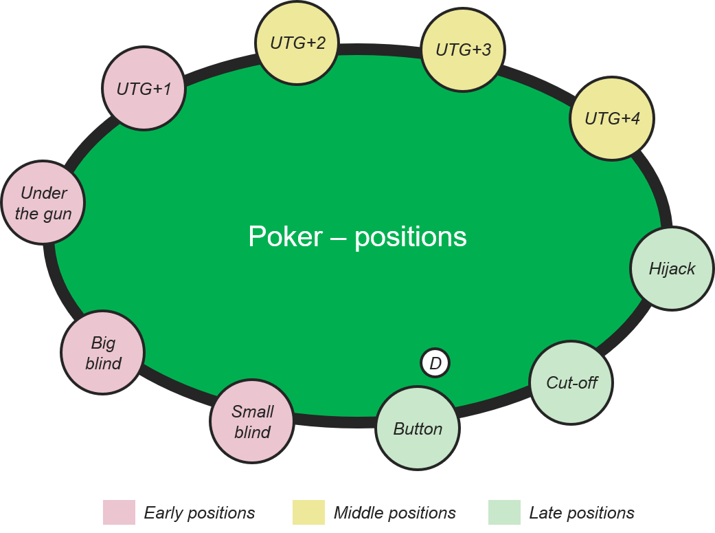 positions in poker